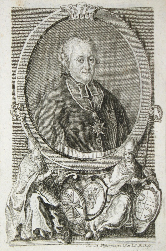 Joseph Ferdinand Guidobald von Spaur (1705-1793), pfalz-bayerischer Hofbischof